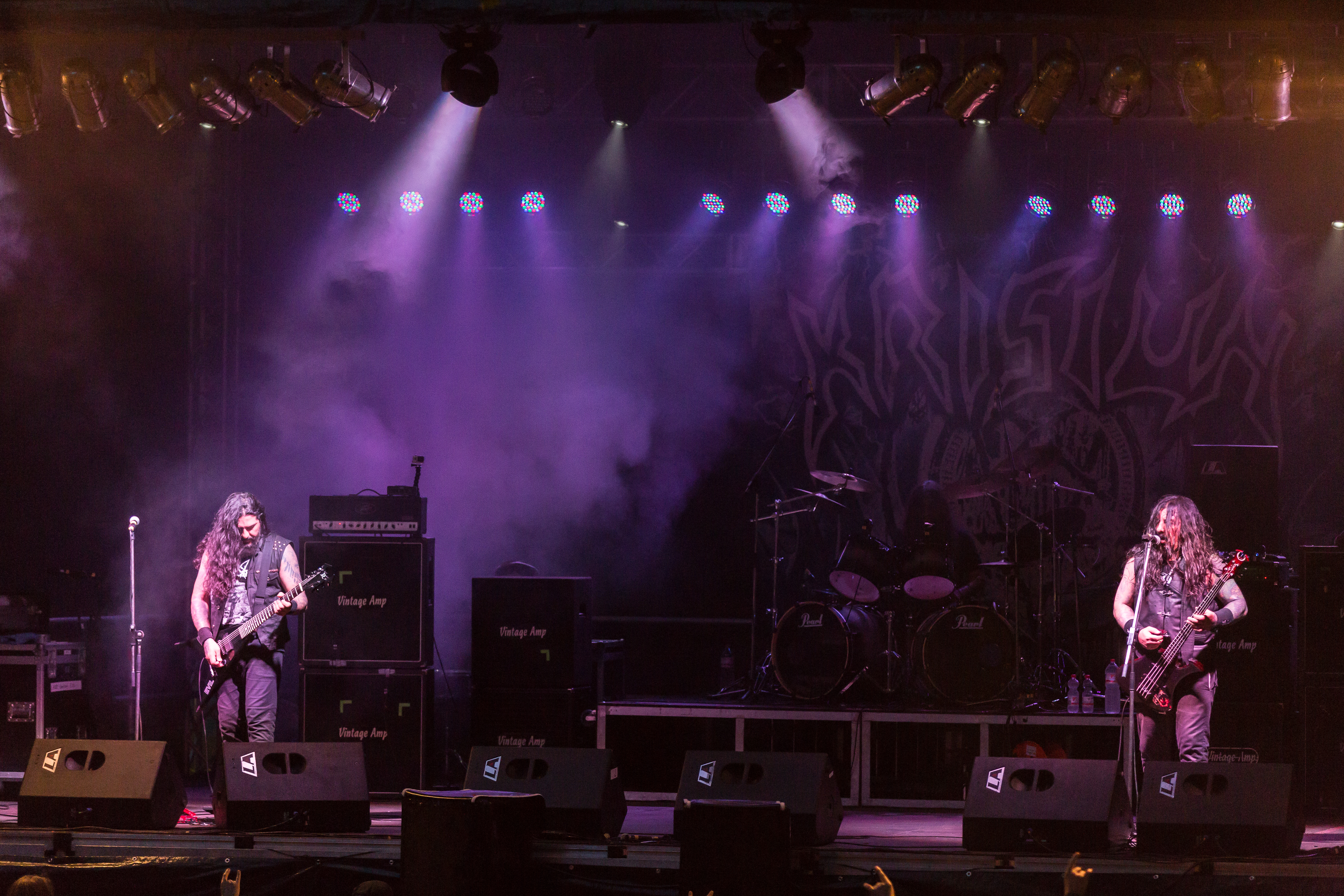 The Brazilian death metal band Krisiun at the Rock unter den Eichen Open Air 2017 in Bertingen/Germany.